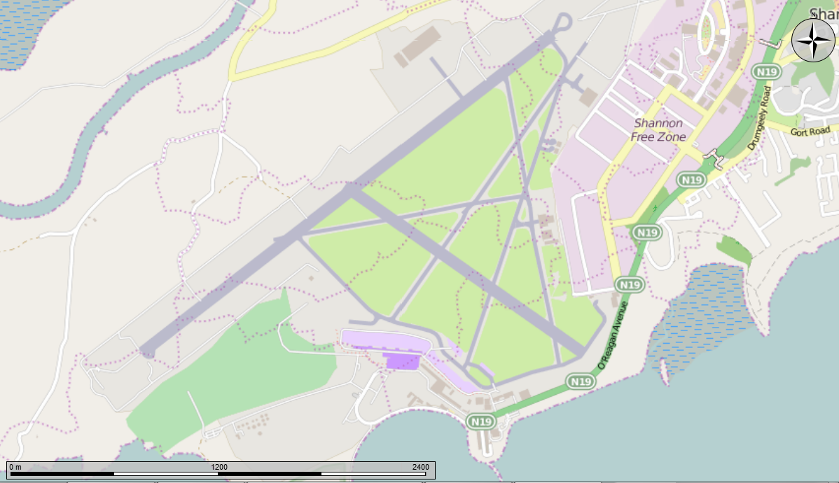 Open Street Map of the Shannon Airport and the Shannon Free Zone. Crop from the Marble program.